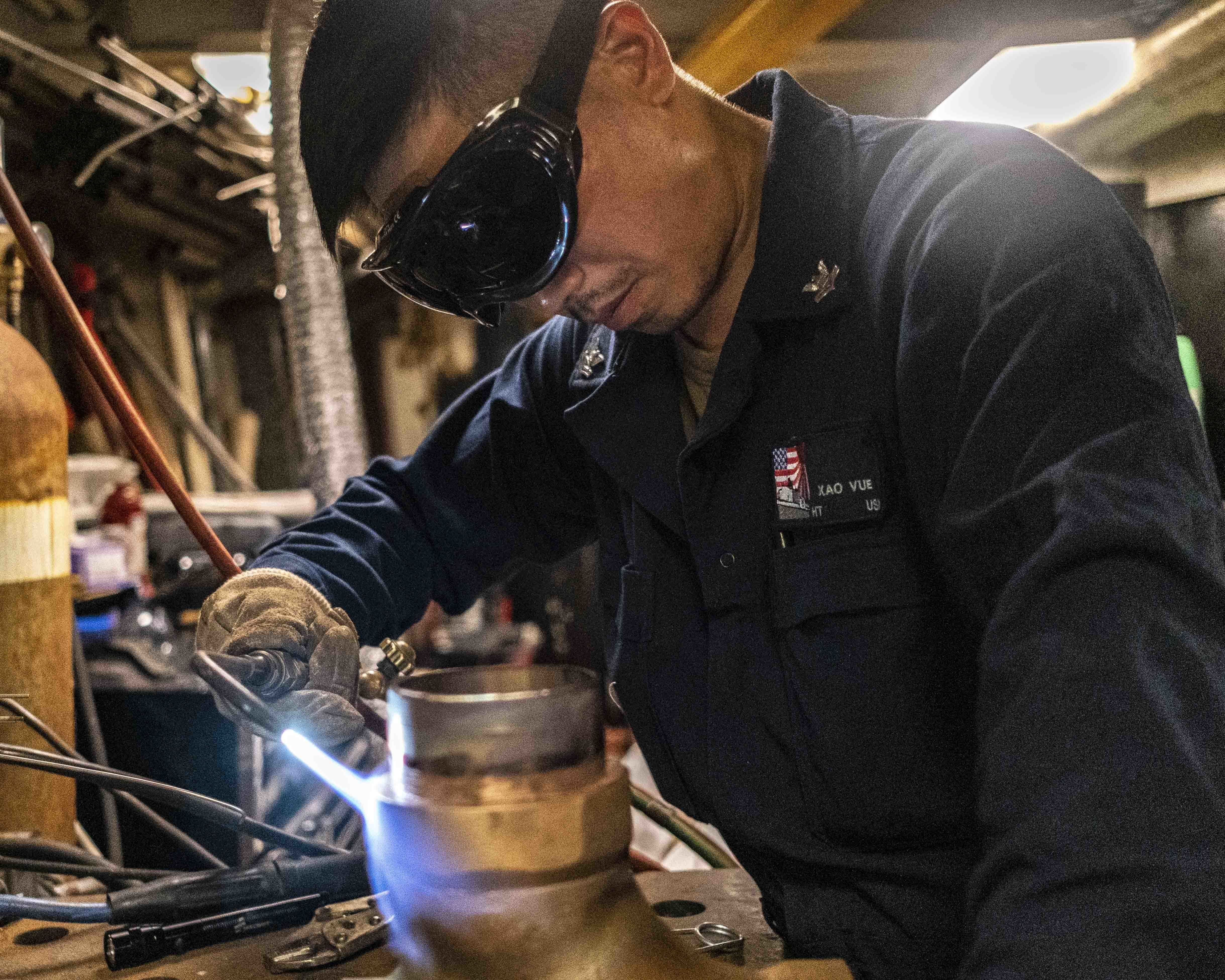 190807-N-WI365-1104 PHILIPPINE SEA (August 07, 2019) – Hull Maintenance Technician 2nd Class Xao Vue, from Warren, Michigan, brazes a steel pipe in the HT shop aboard the amphibious dock landing ship USS Ashland (LSD 48). Ashland, part of the Wasp Amphibious Ready Group, with embarked 31st Marine Expeditionary Unit, is operating in the Indo-Pacific region to enhance interoperability with partners and serve as a ready-response force for any type of contingency. (U.S. Navy photo by Mass Communication Specialist 2nd Class Markus Castaneda)